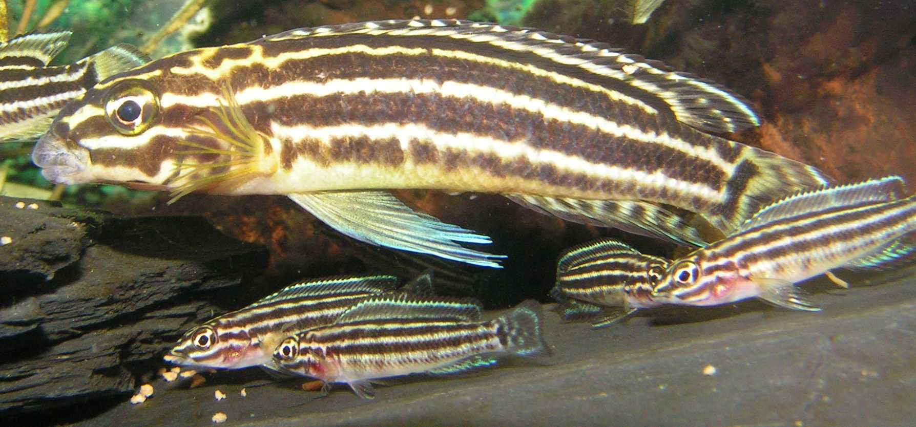 Julidochromis regani family feeding